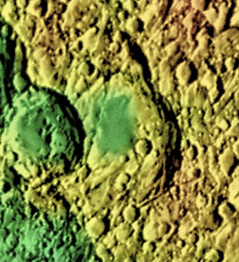 Brouwer crater - Colour-coded Lac 122 from USGS Digital Atlas